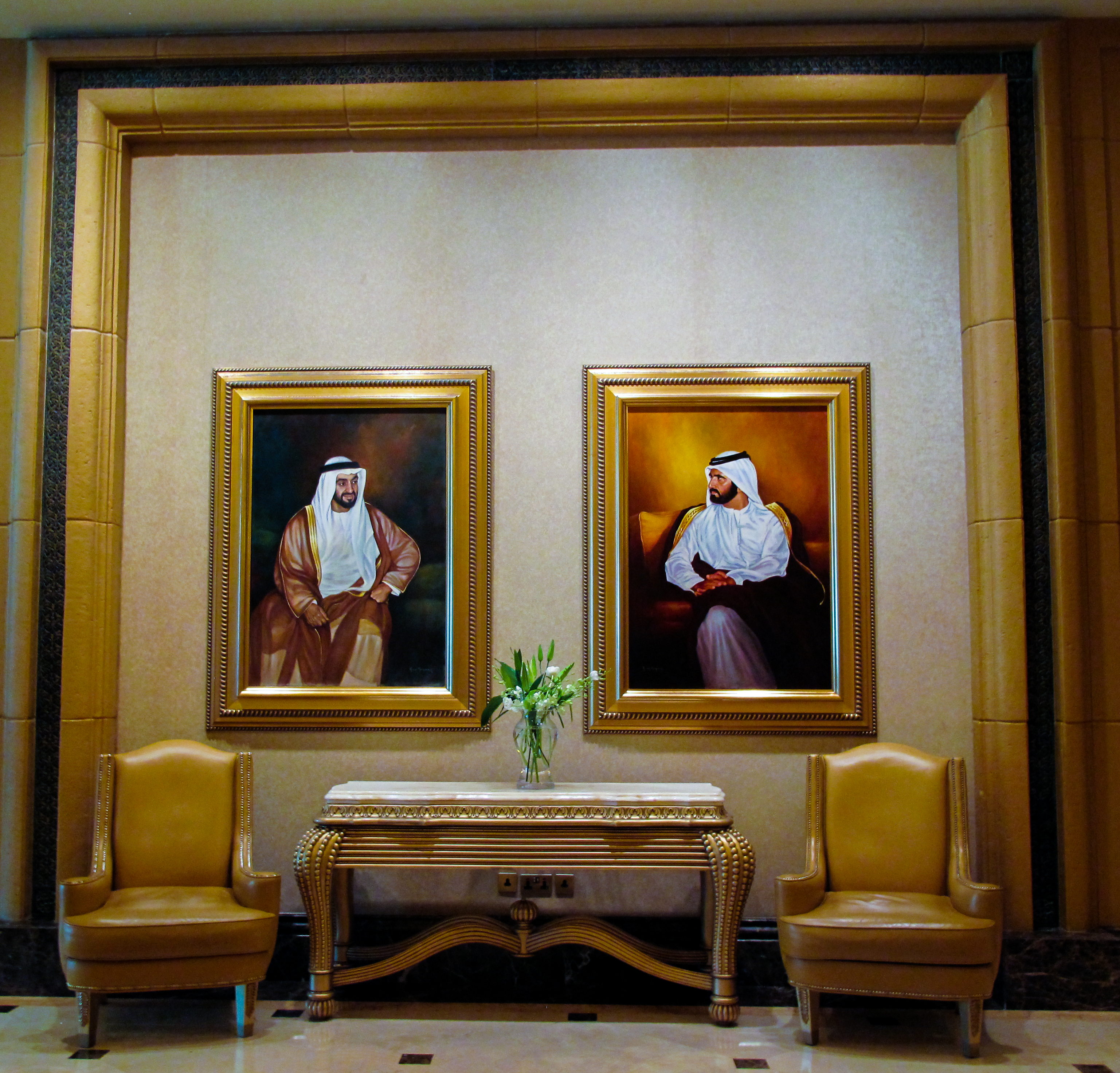 Princes